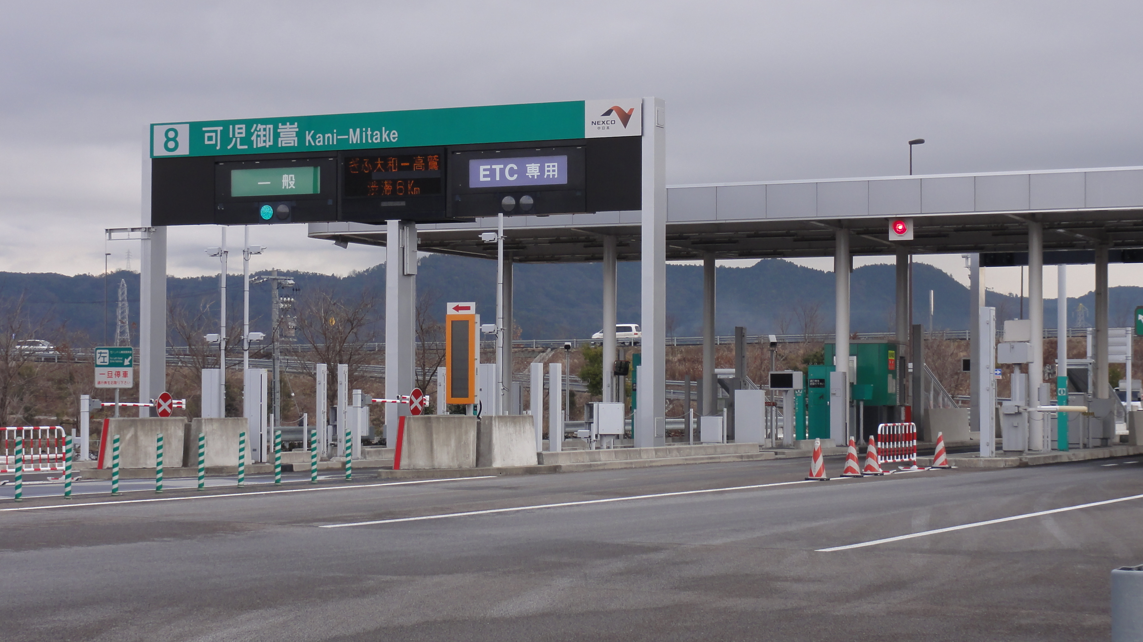 Kani-Mitake InterChange,Gifu Pref., Japan